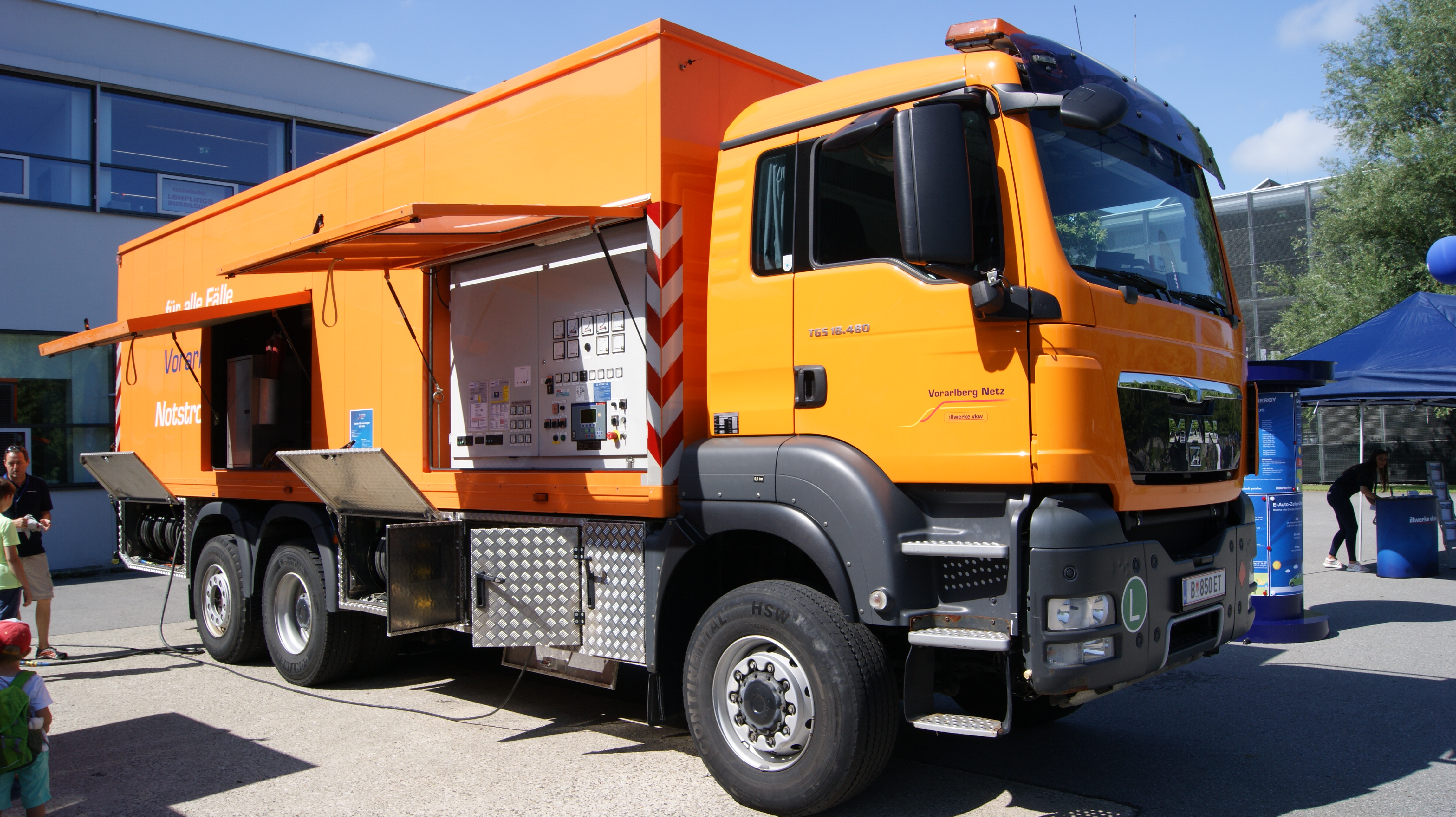 Vehicle-mounted electricity generator of the Vorarlberger Kraftwerke (VKW) in Vorarlberg, Austria on a MAN truck.